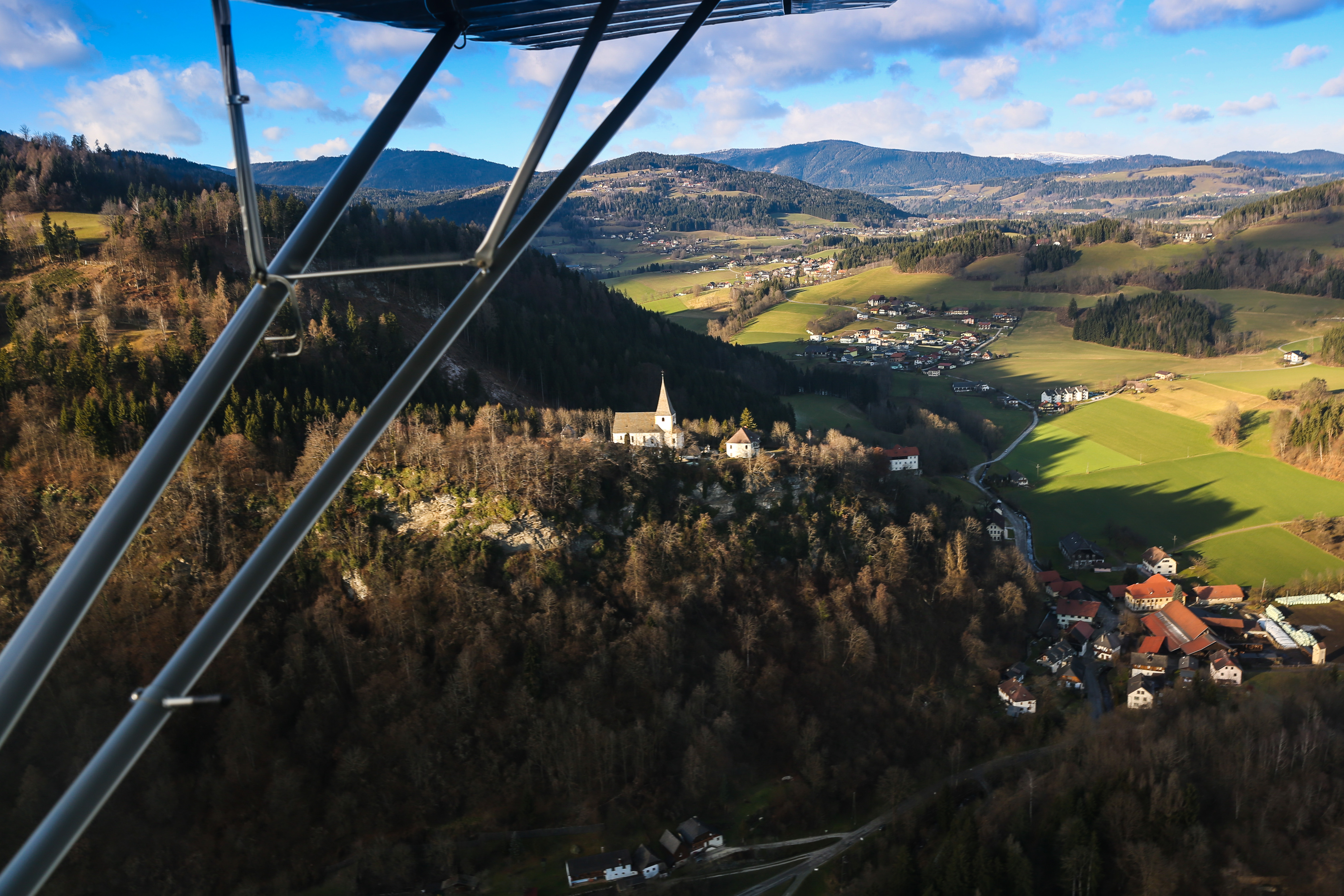 View of the village Tiffen near Feldkirchen in Carinthia / Austria / EU. It is winter. Aerial photograph of a Aeronca L-16 7BCM.